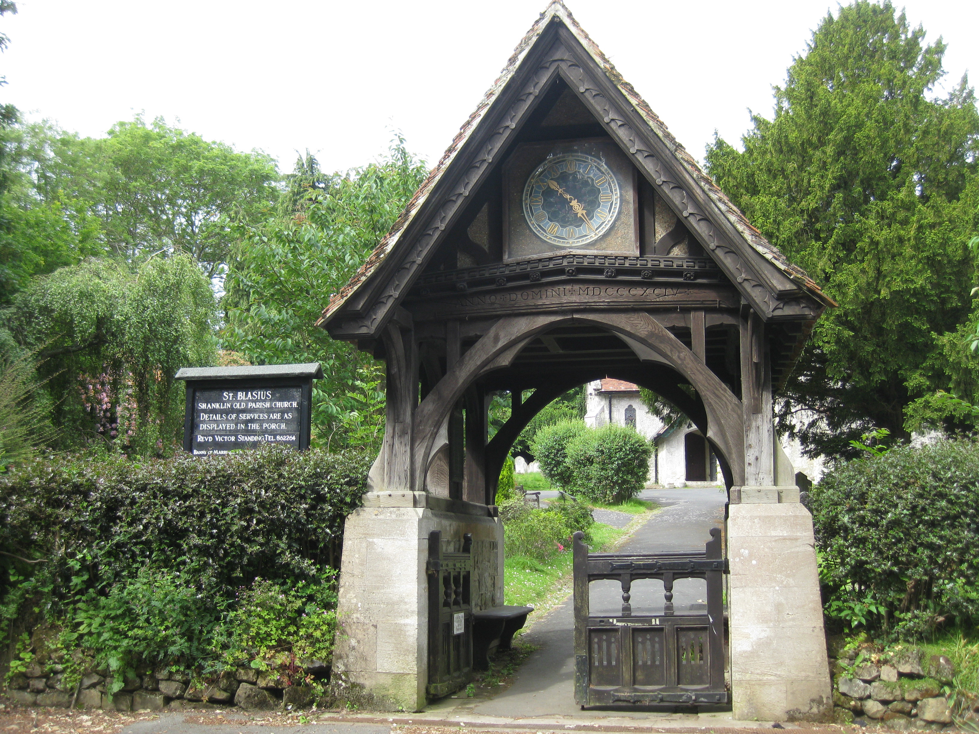 Lychgate of St Blasius' parish church, Shanklin, Isle of Wight, dedicated to the Popham family